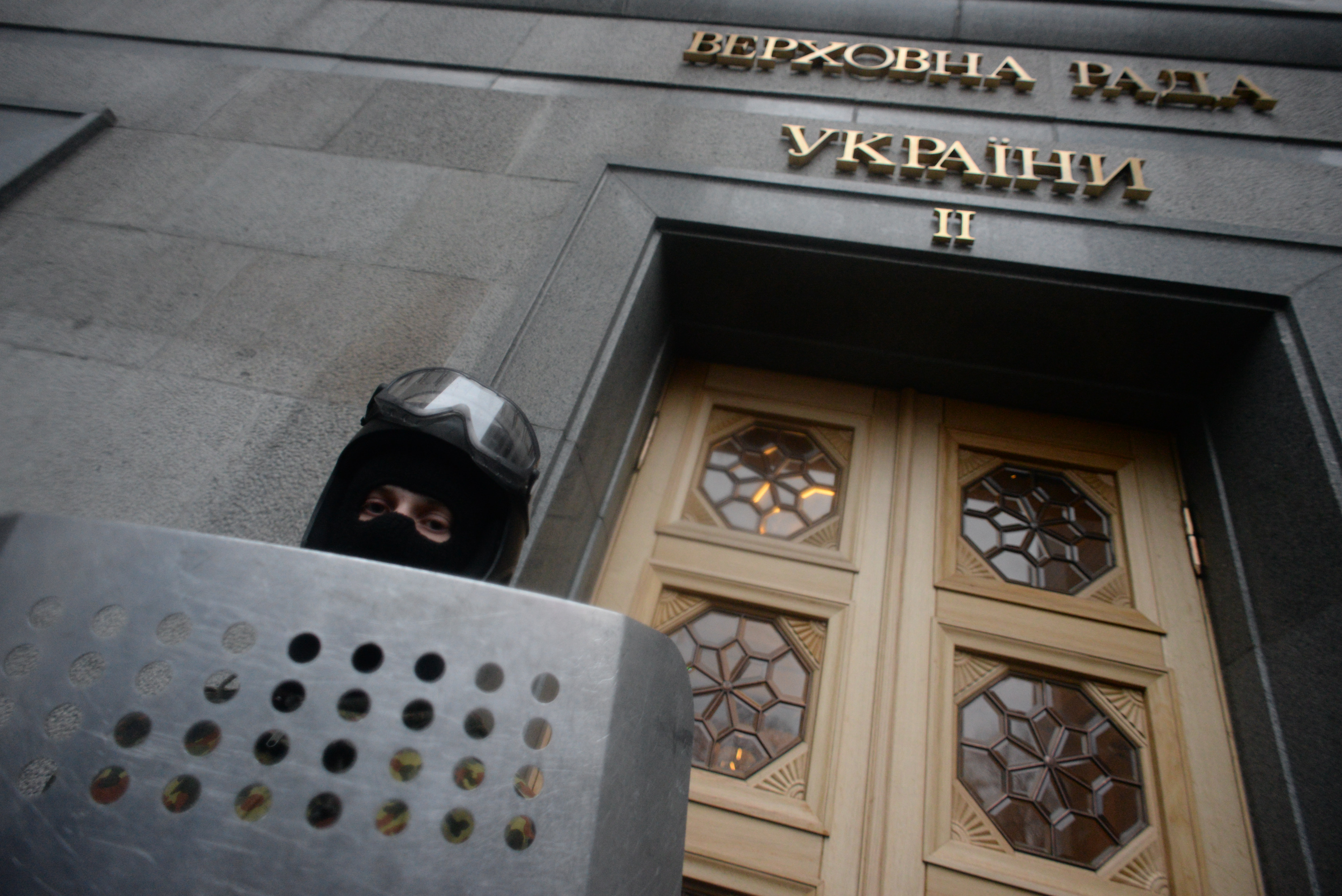 Samooborona (Self Defence) guard at the entrance to Verkhovna Rada. Euromaidan, Kyiv, Ukraine. Events of February 22, 2014.